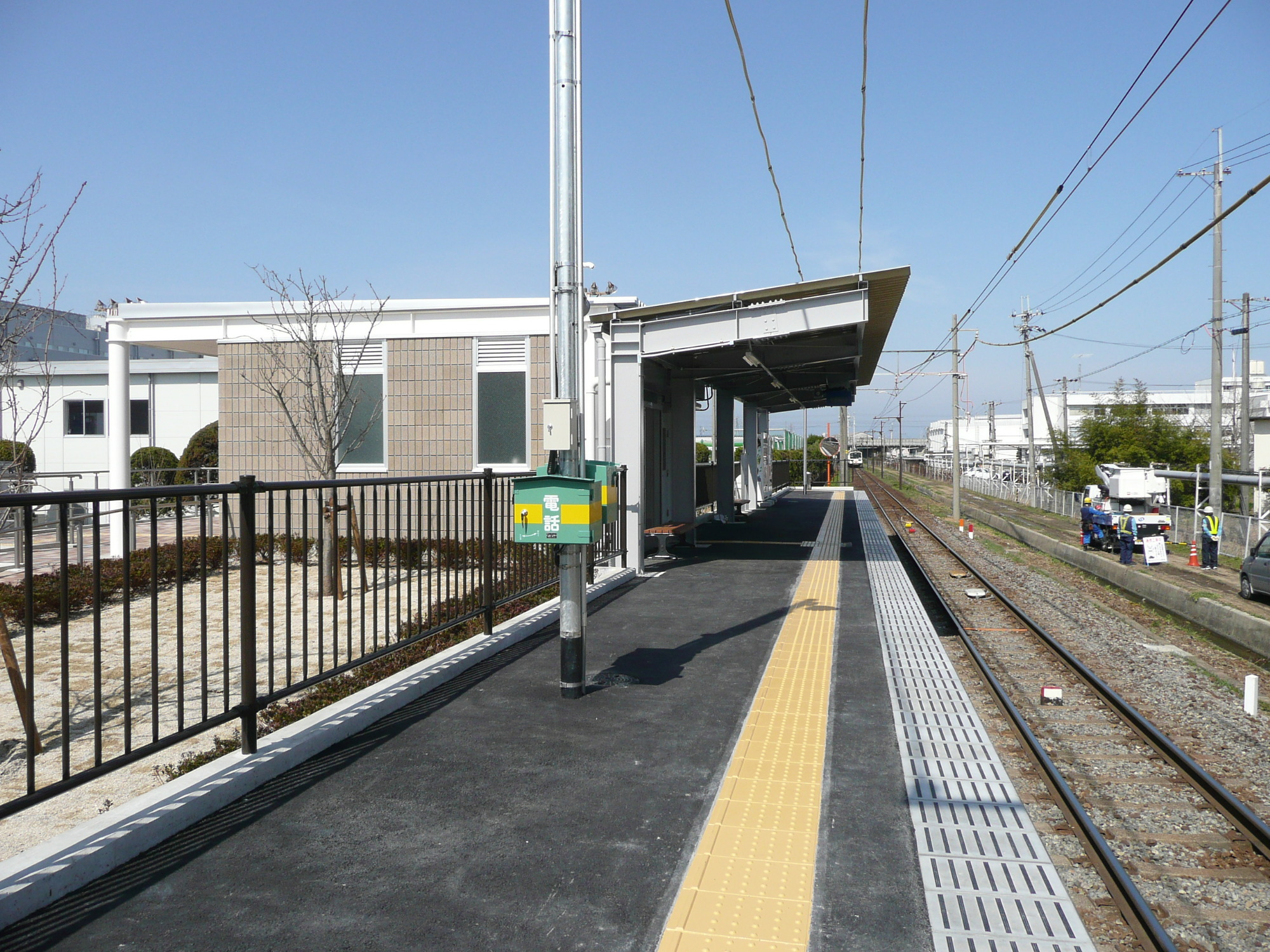 Ohmi Railway,SCREEN Station platform. / 近江鉄道多賀線スクリーン駅ホーム